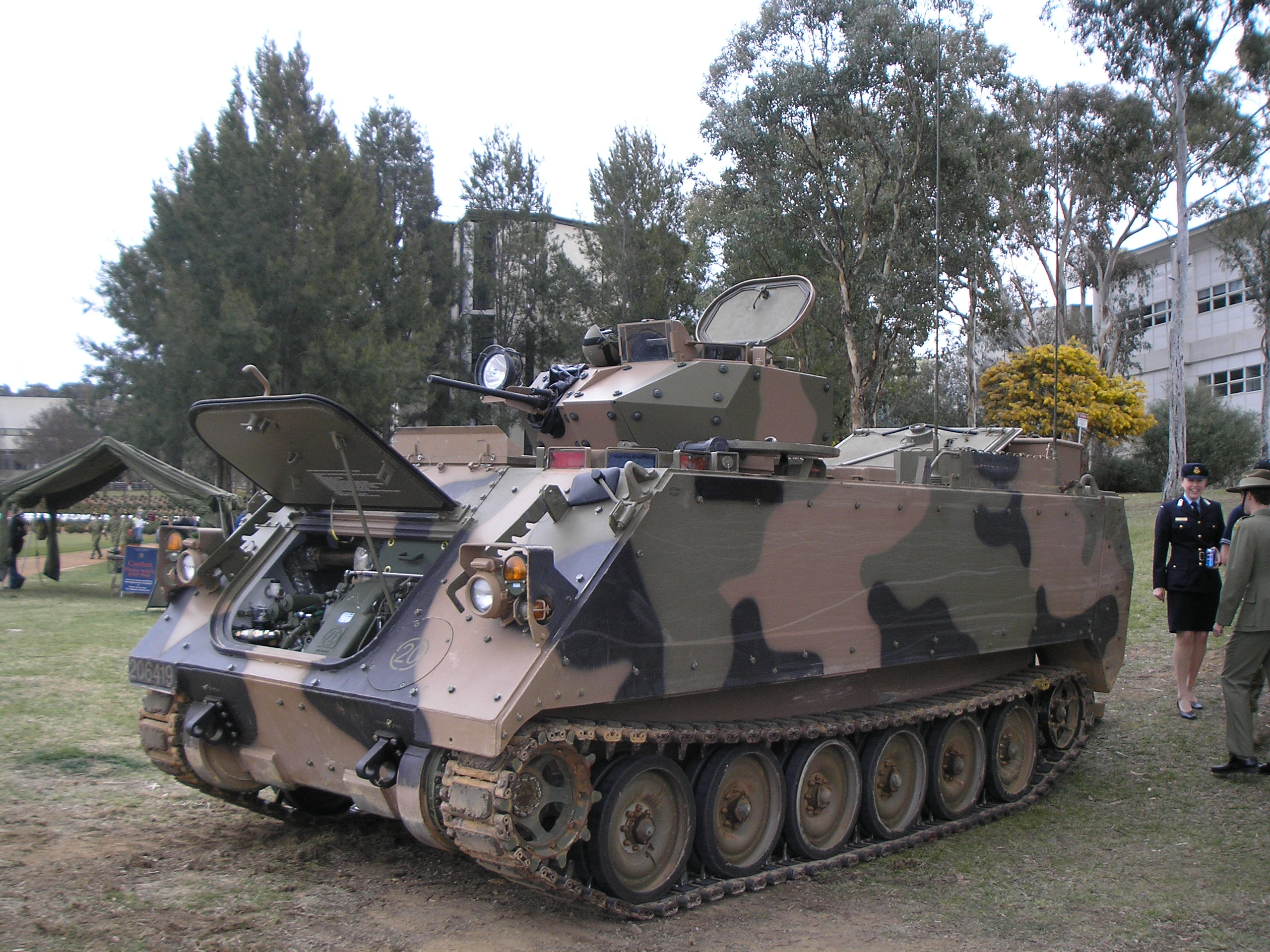 Front view of an Australian Army M113AS4 armoured personnel carrier